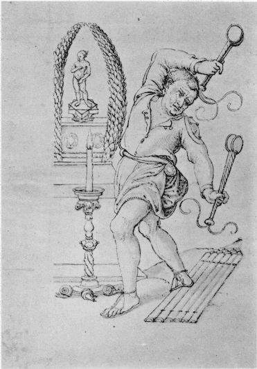 Month of April from in the Chronography of 354 by the 4th century kalligrapher Filocalus. The copies of the original illustrations are pen drawings in a 17th century manuscript from the Barberini collection (Vatican Library, cod. Barberini lat. 2154).